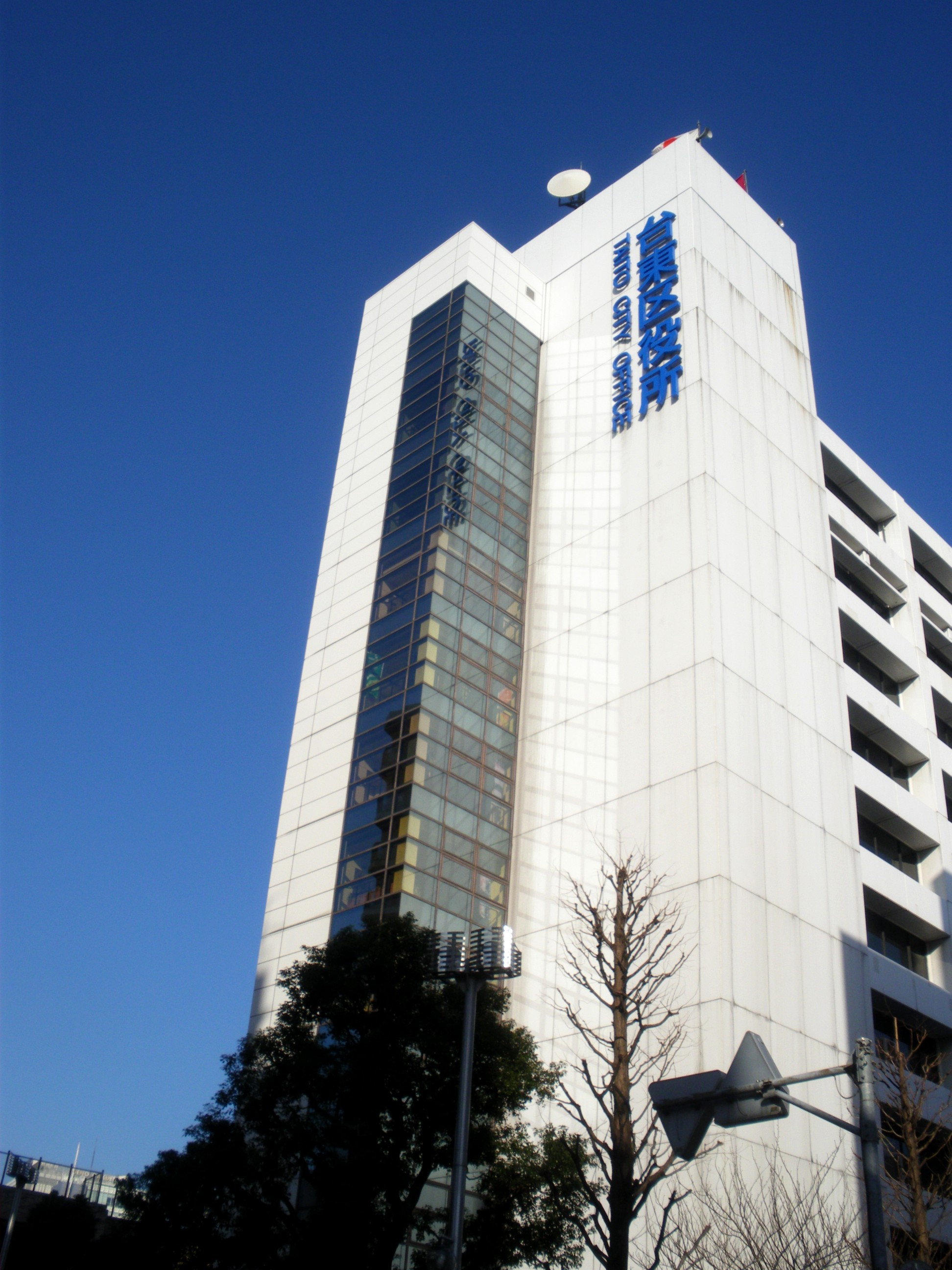 A photo of Taito city office. Taito-ku(ward) is one of the Special wards of Tokyo.Taito-ku is famous for Ueno and Asakusa..